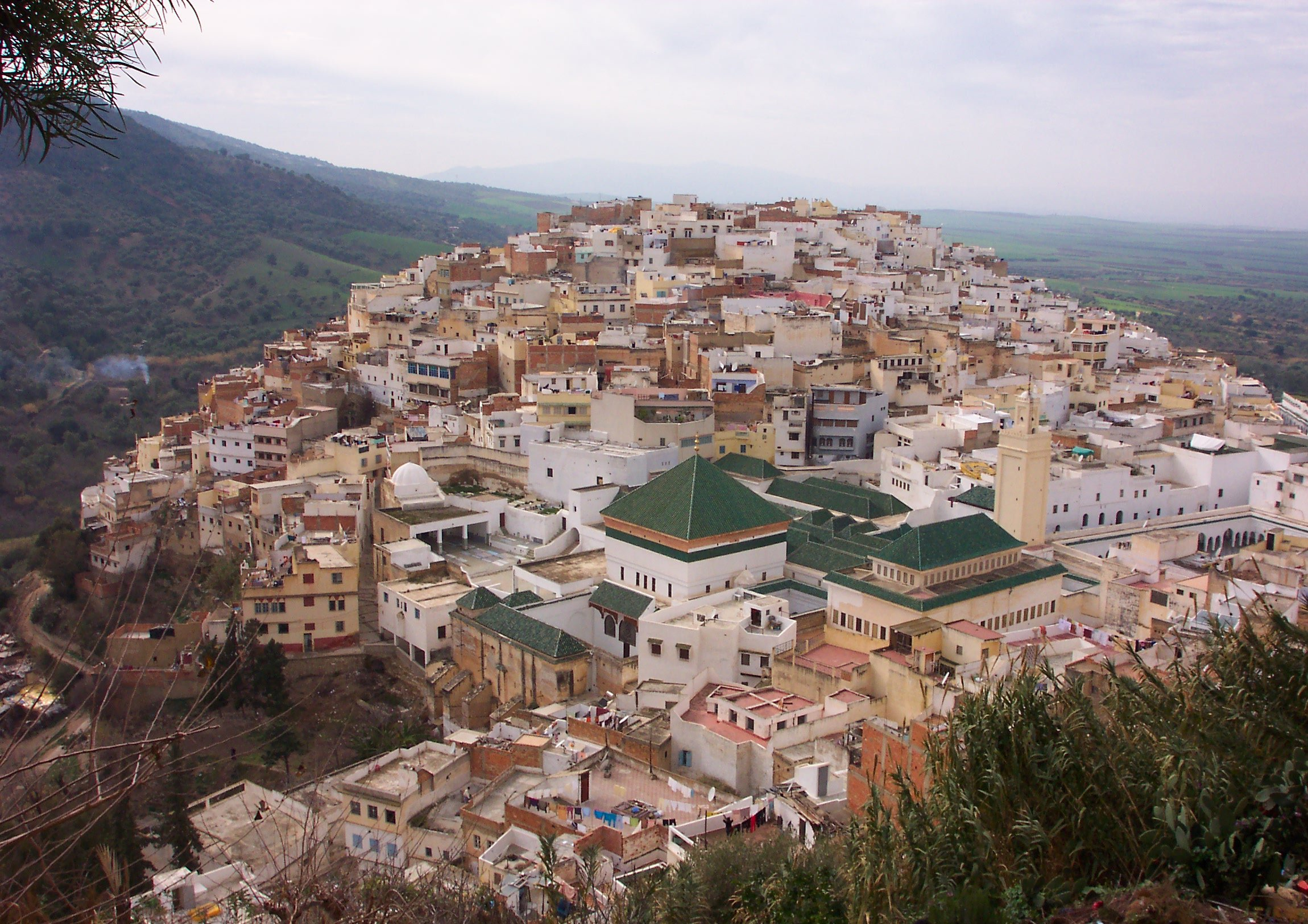 Moulay Idriss (Morocco)